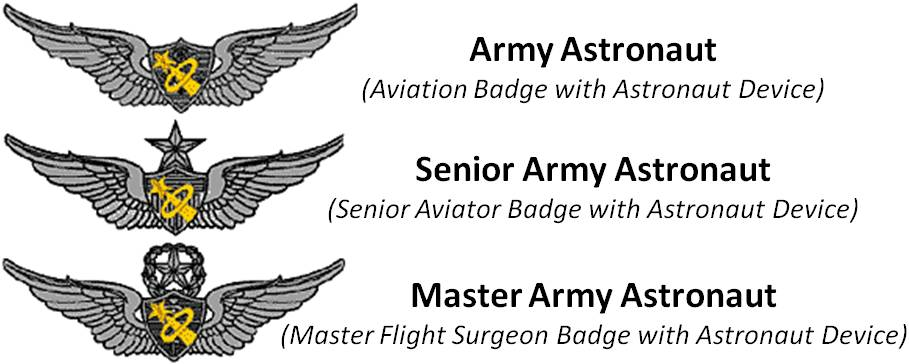 Army Astronaut Device US Army